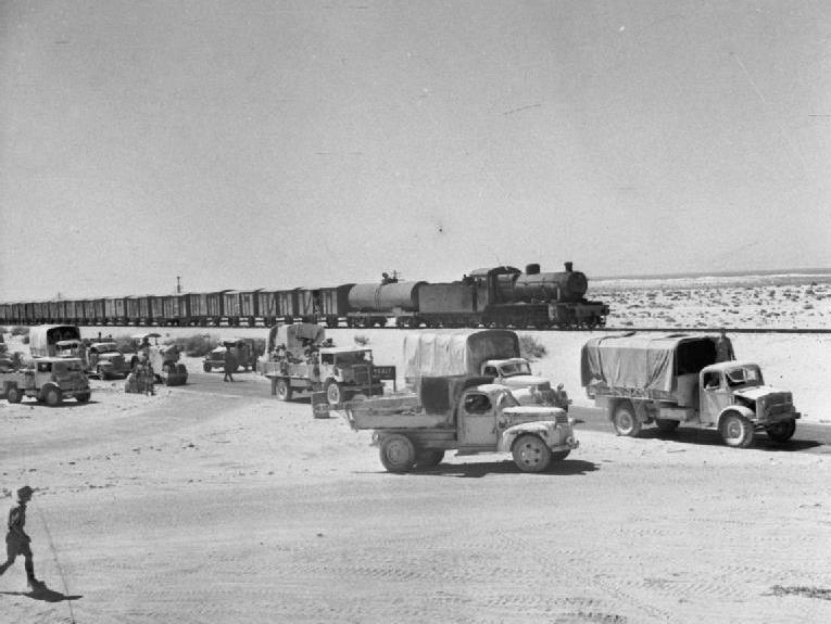 The British Army in North Africa 1942 A railway train and lorries are used to ferry supplies during the retreat of the 8th Army into Egypt